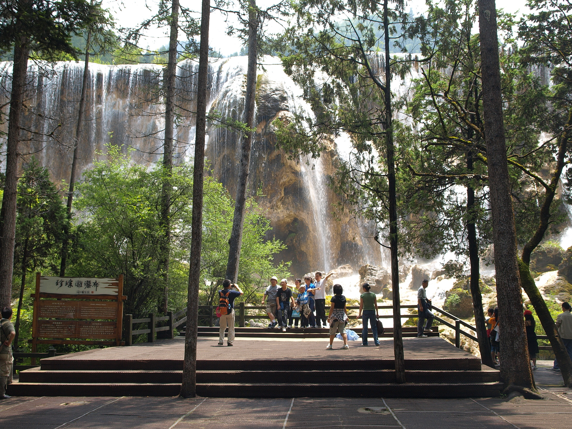 Pearl Shoals Falls in Jiuzhaigou, Sichuan, China